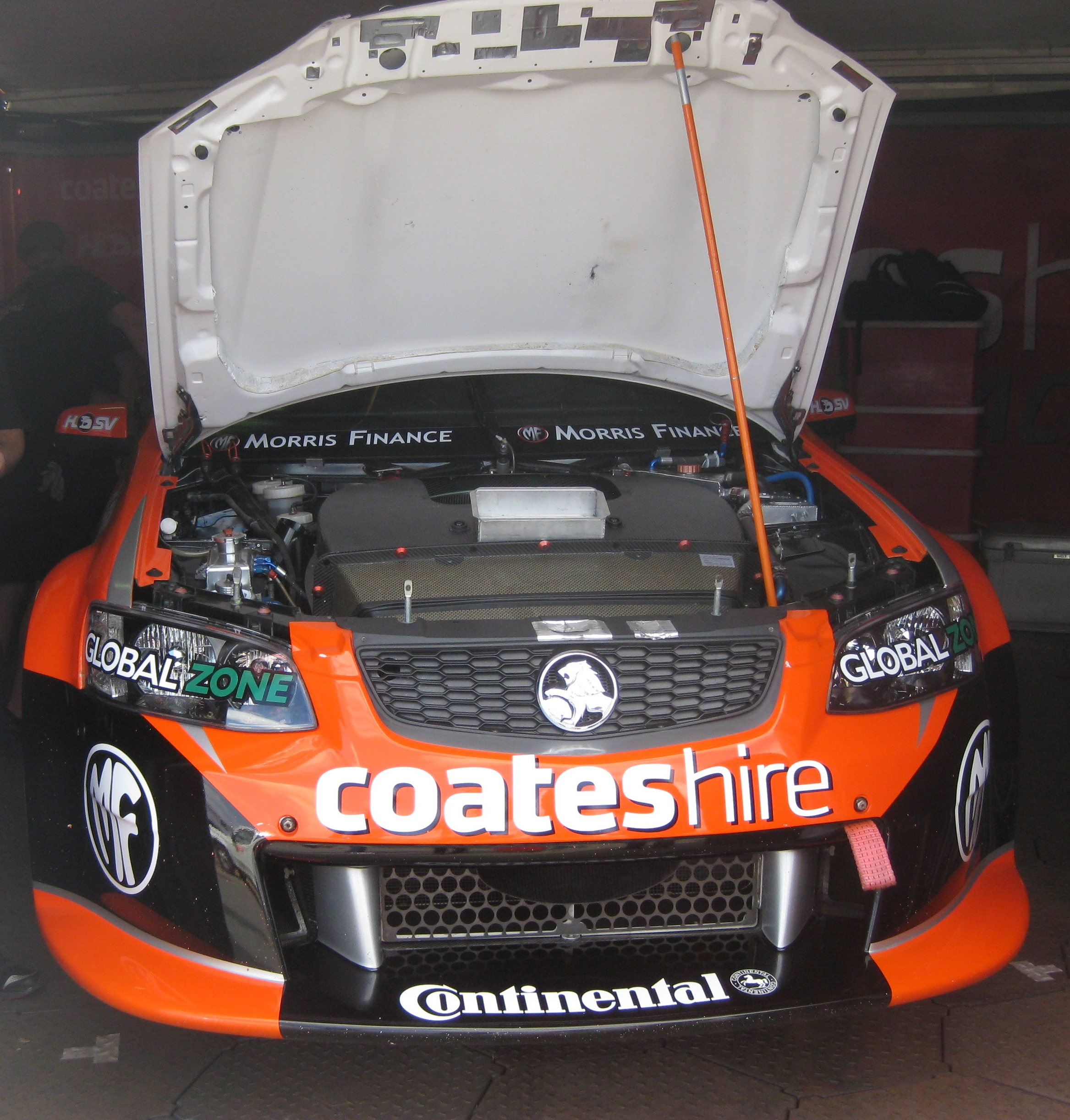 The Holden VE Commodore of Nick Percat at the opening round of the 2012 Dunlop Series